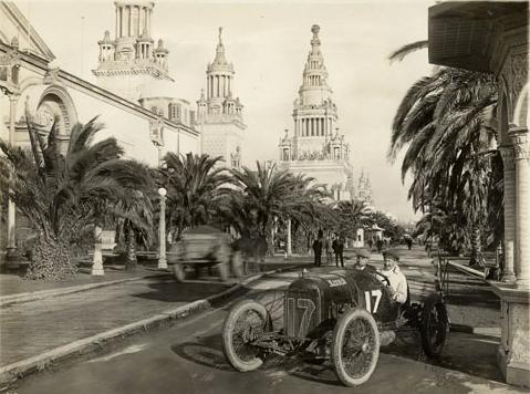 Eddie Rickenbacker in his Maxwell on the Avenue of Palms, during either the 1915 American Grand Prize and Vanderbilt Cup in San Francisco.